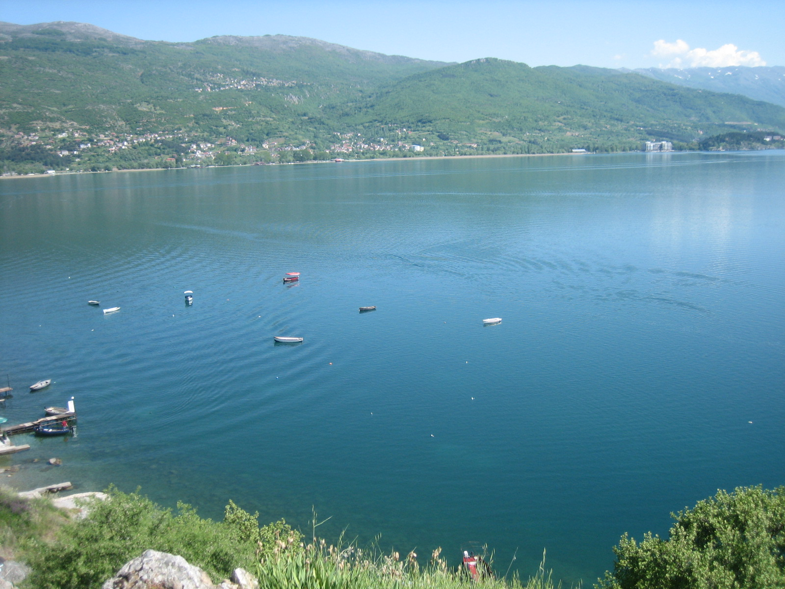 Lake Ohrid, Macedonia